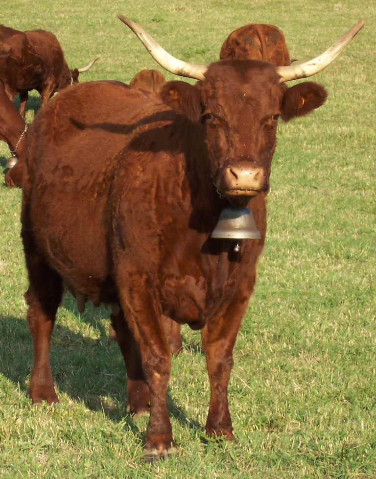 Salers breed cow, Cantal (France)